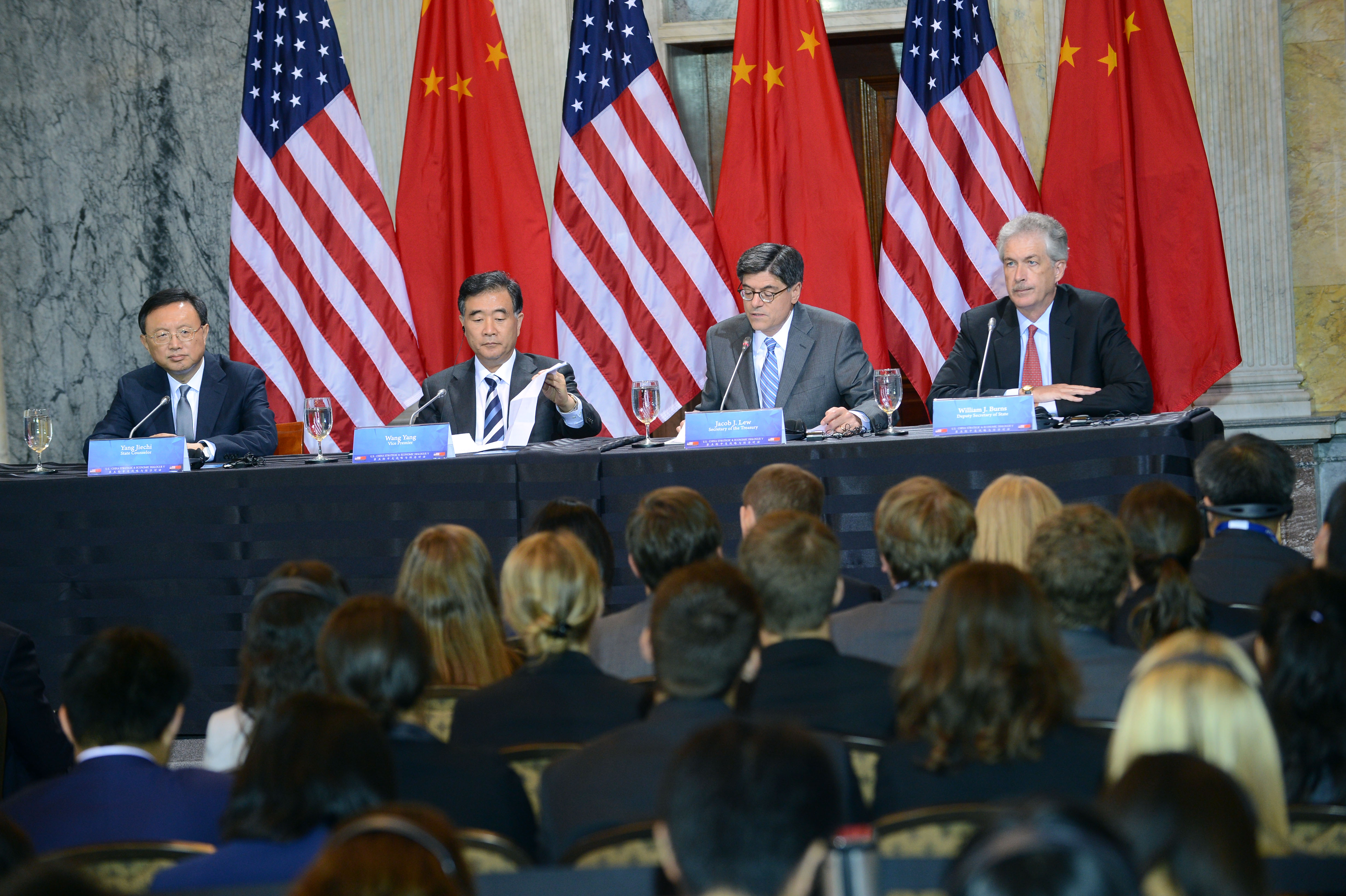 U.S. Deputy Secretary of State William Burns, U.S. Secretary of the Treasury Jacob Lew, Chinese State Councilor Yang, and Chinese Vice Premier Wang deliver their closing statements of the U.S.-China Strategic and Economic Dialogue in the Cash Room at the U.S. Department of Treasury in Washington, D.C., on July 11, 2013. [State Department photo/ Public Domain]